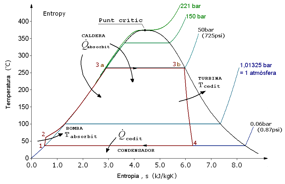 Ts (Temperature vs. specifific entropy) diagram of a basic Rankine cycle using water/steam in SI units. Data derived from IAPWS IF-97 using freeware openoffice-calc macros from Decided against using Kelvin for temperature scale as many people are unfamiliar with it; used °C instead. Isobars are at pressures 0.06bar, 1.01325bar (1atm), 50bar, 150bar and 221bar. Temperature rise associated with pump is heavily exaggerated for clarity and cycle operates between pressures of 50bar and 0.06bar. States are numbered using the convention I've always been familiar with. Easiest to think of the cycle starting at the pump and so input to pump is state 1.